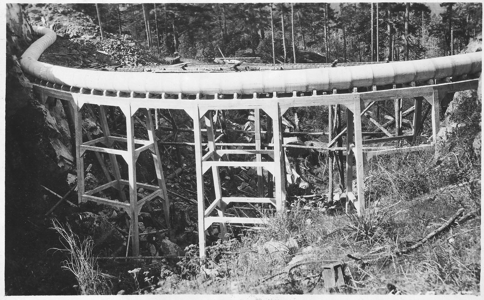 Flowline on trestle, 1914